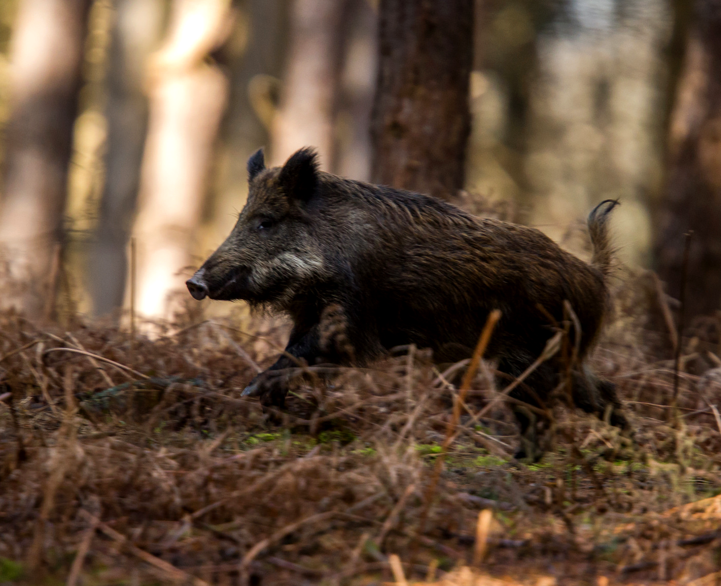 A wild Razorback running through the forest.